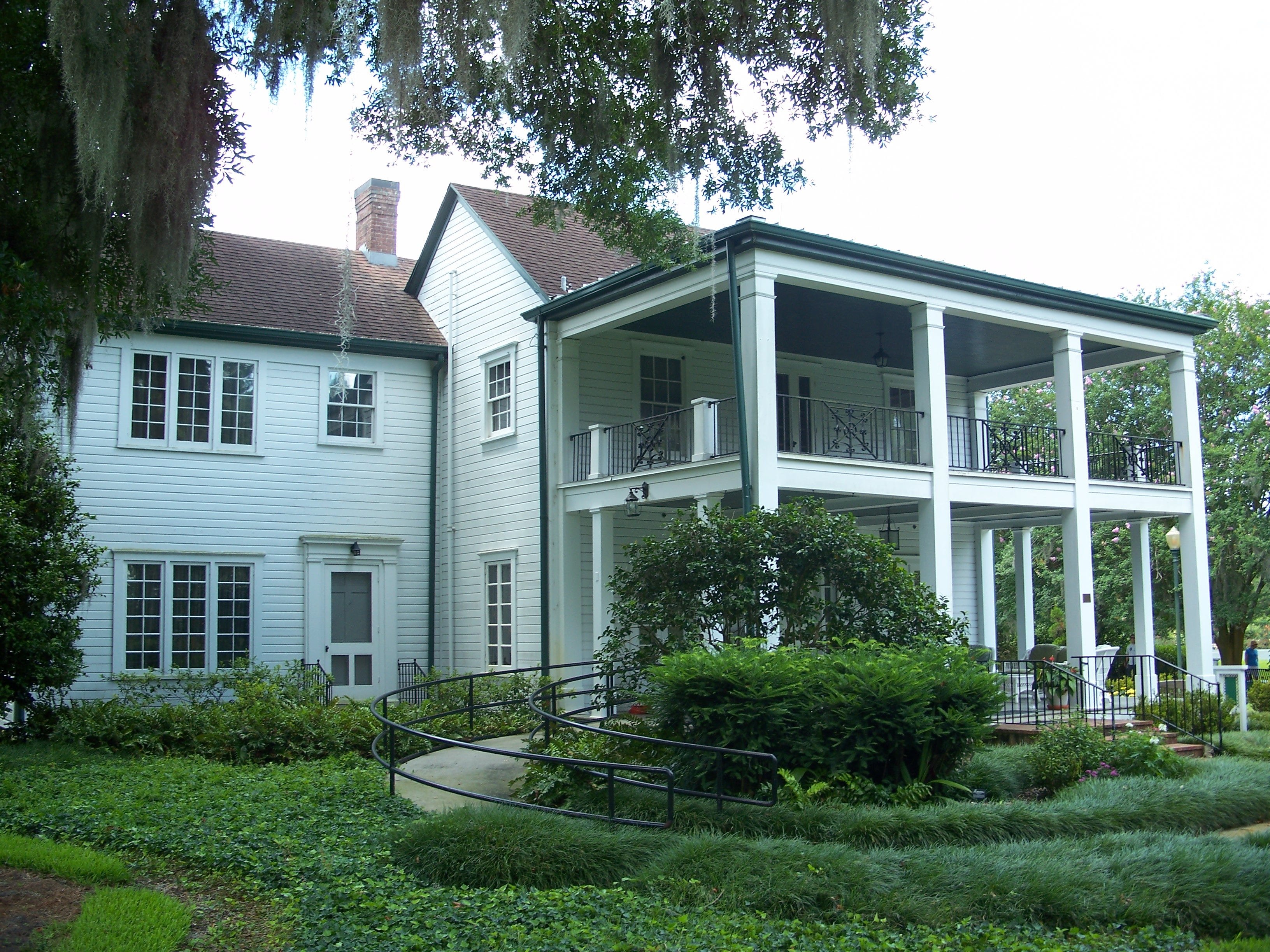 Mizell Leu House, in the Harry P. Leu Gardens, in Orlando, Florida